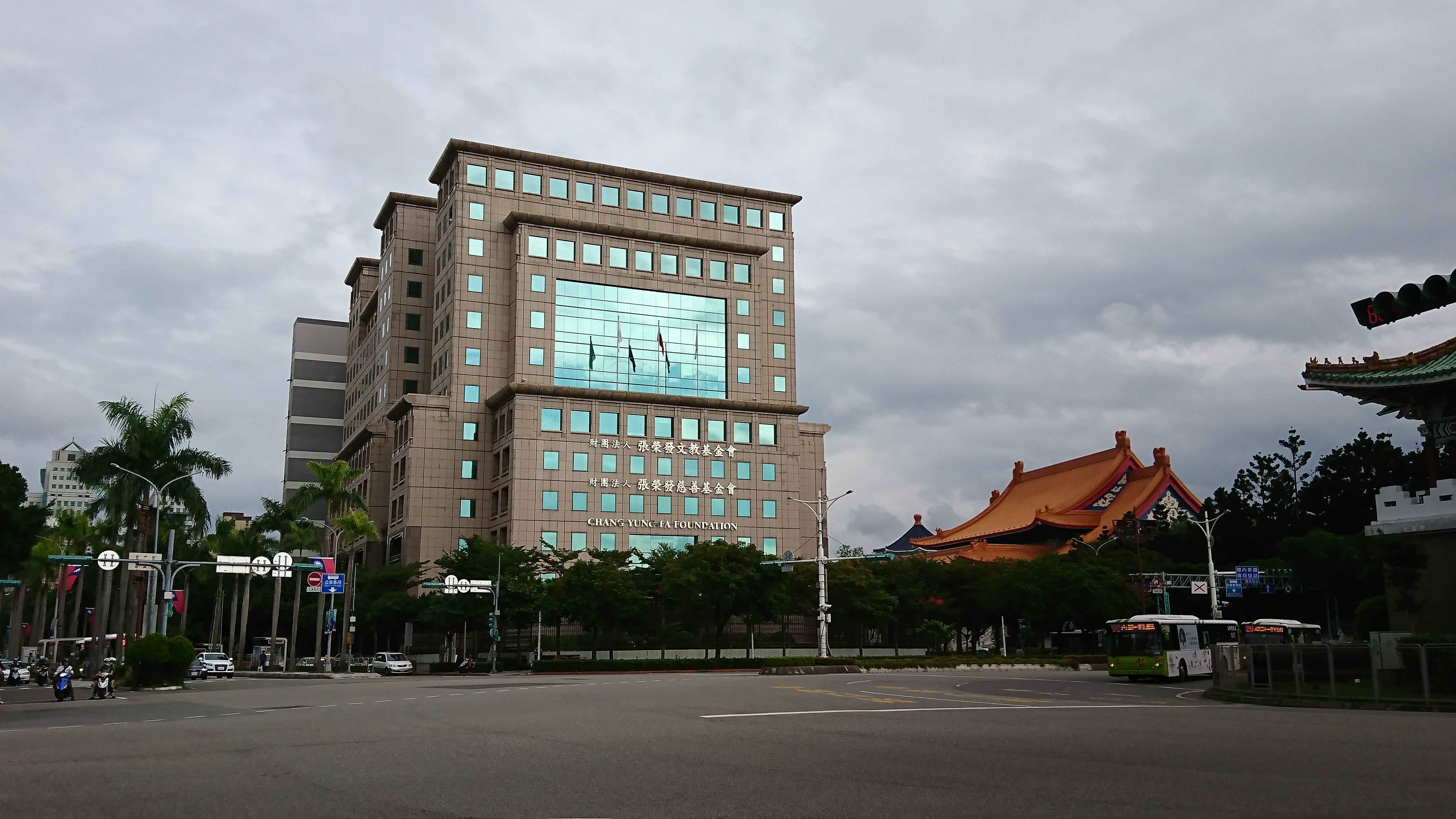 Chang Yung-Fa Foundation Building, Zhongzheng District, Taipei, Taiwan.